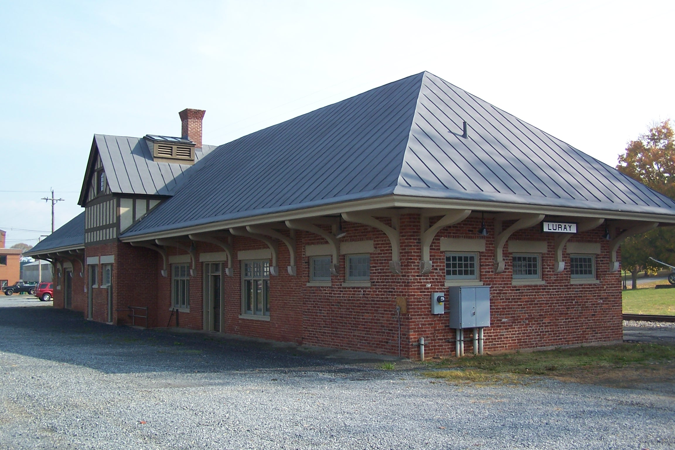 Here is a rear view of the train station in Luray, VA. the station sits along the NS mainline through the Shenandoah Valley.